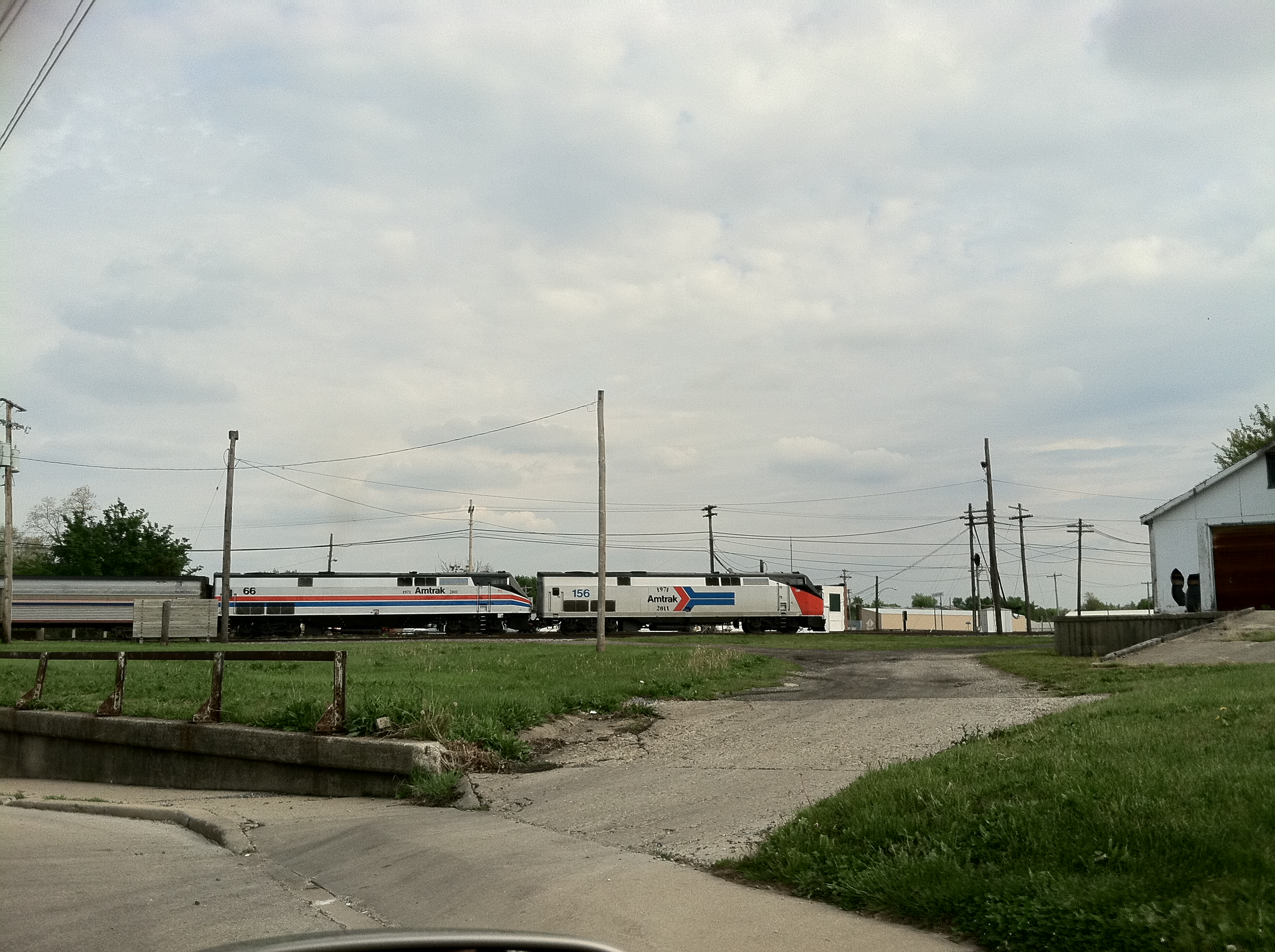 Amtrak 40th anniversary engines idling at Galesburg.